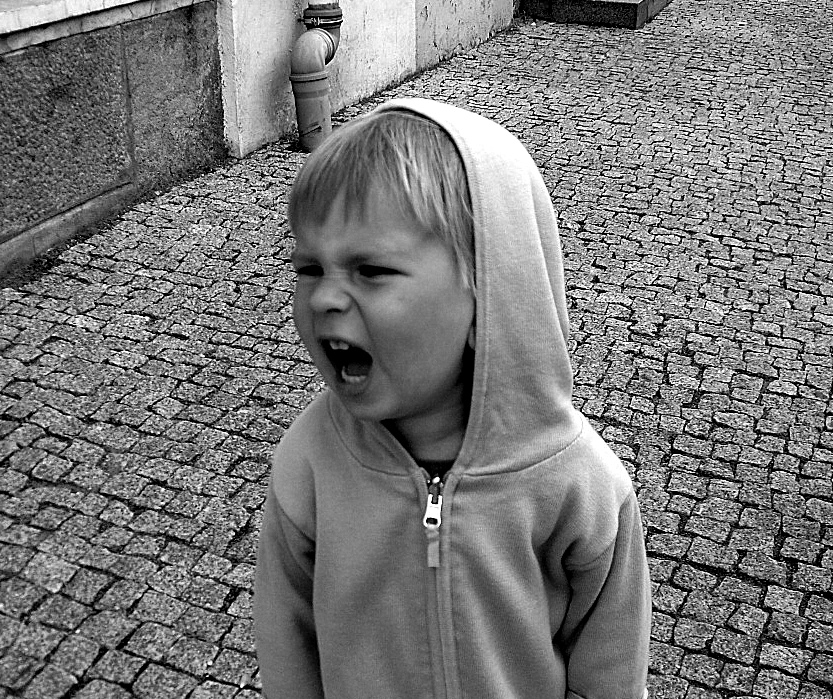 my son when angry:) we've been strolling a street in Klaipeda, Lithuania, when his anger burst please, email me your link once you post this photo - thanks! already blogged: [1] urbantimes.co/2013/01/what-not-to-say-in-an-argument-or-e... .au/scis/connections/behaviour.html -a-harsh-word/